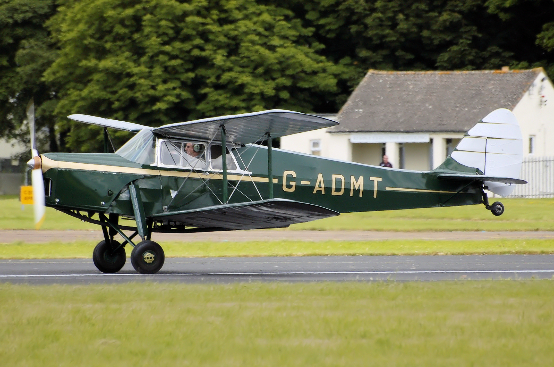 de Havilland DH87B Hornet Moth (G-ADMT) taking off at Kemble Air Day 2008, Kemble Airport, Gloucestershire, England. This aircraft was built in 1936.